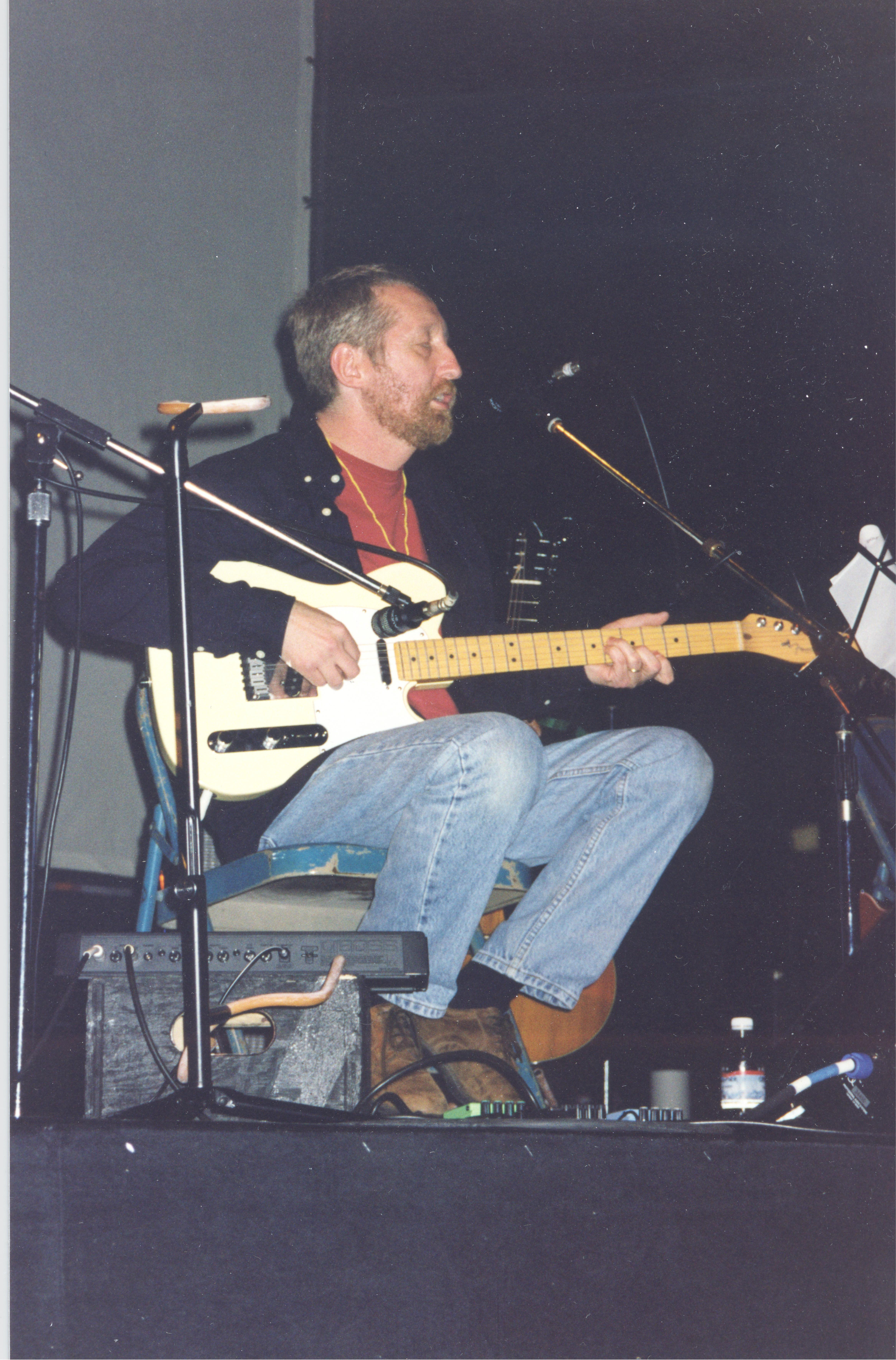 Tom Rapp at Terrastock 2 concert in Terrastock in San Francisco